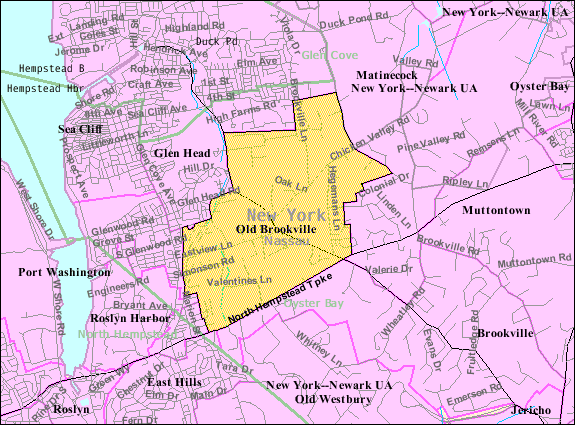 U.S. Census 2000 reference map for Old Brookville, New York